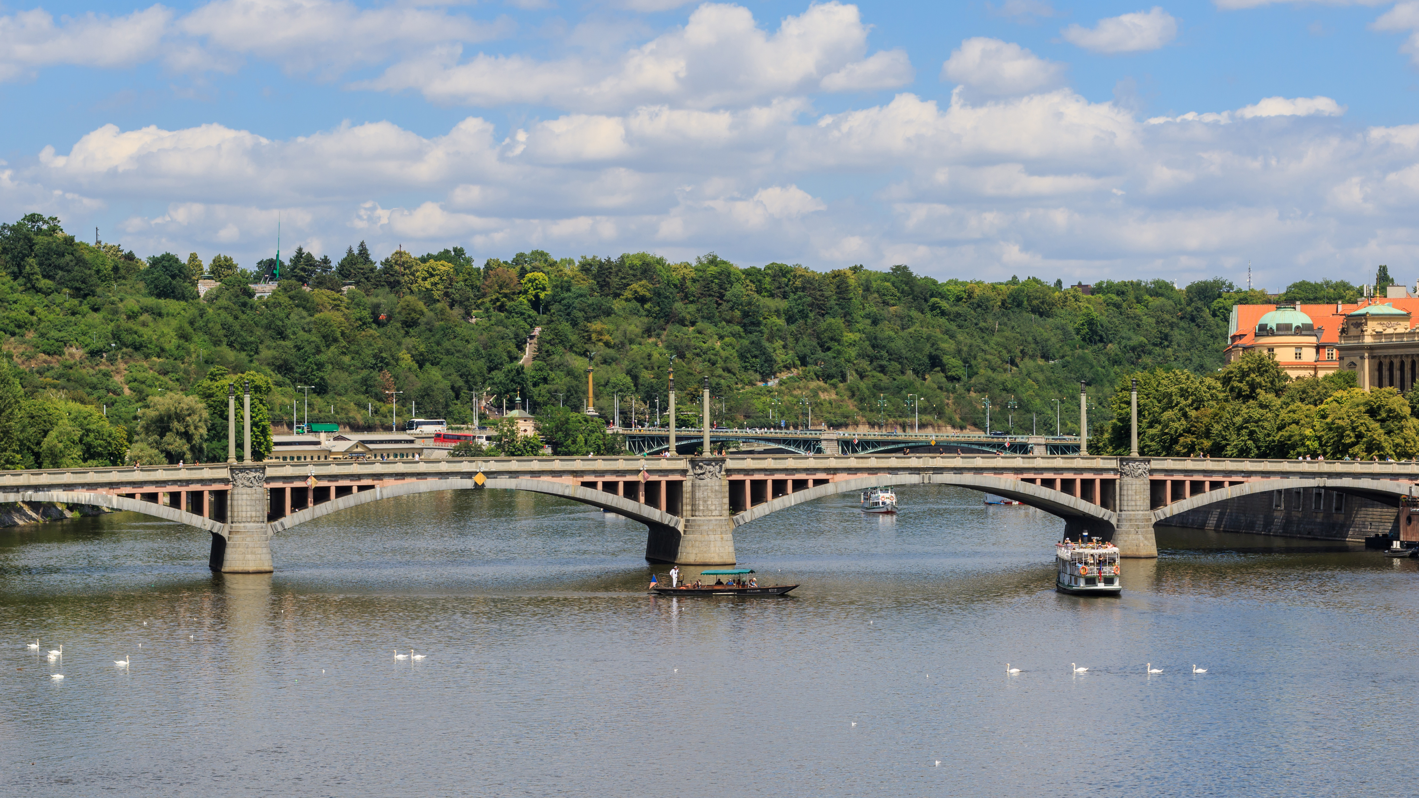 Mánes Bridge in Prague (Czech Republic)